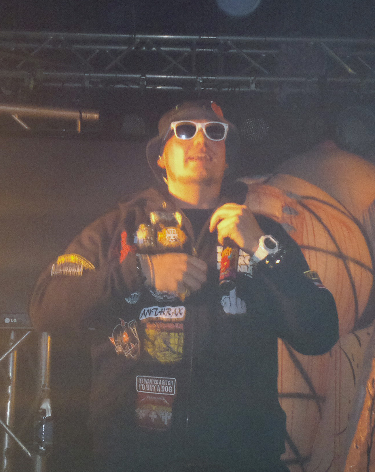 Petri Nygård performing in Kooma Nightclub, Turku, Finland.